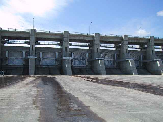 Radial-type spillway gates for the Gardiner Dam on the Saskatchwan River, near Elbow, Saskatchwan Canada. Note people standing on the slab at extreme left of picture. Highway traffic passes over the bridge over the gates. These gates control the level of Lake Diefenbaker and bypass water around the Couteau Creek hydroelectric generating station. Photo taken June 2001. Released for PD.